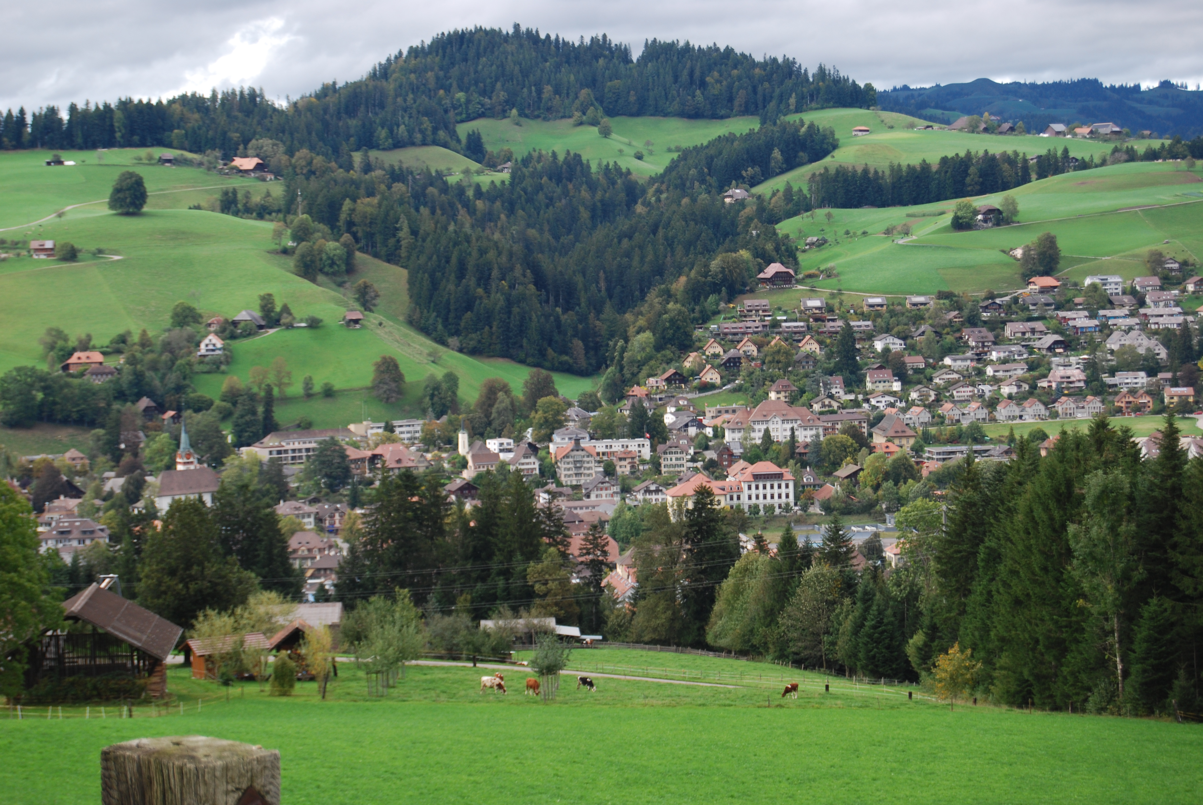 Langnau in the Emme Valley, canton of Bern, SwitzerlandEsperanto: Langnau en Emme-Valo, Kantono Berno, Svislando